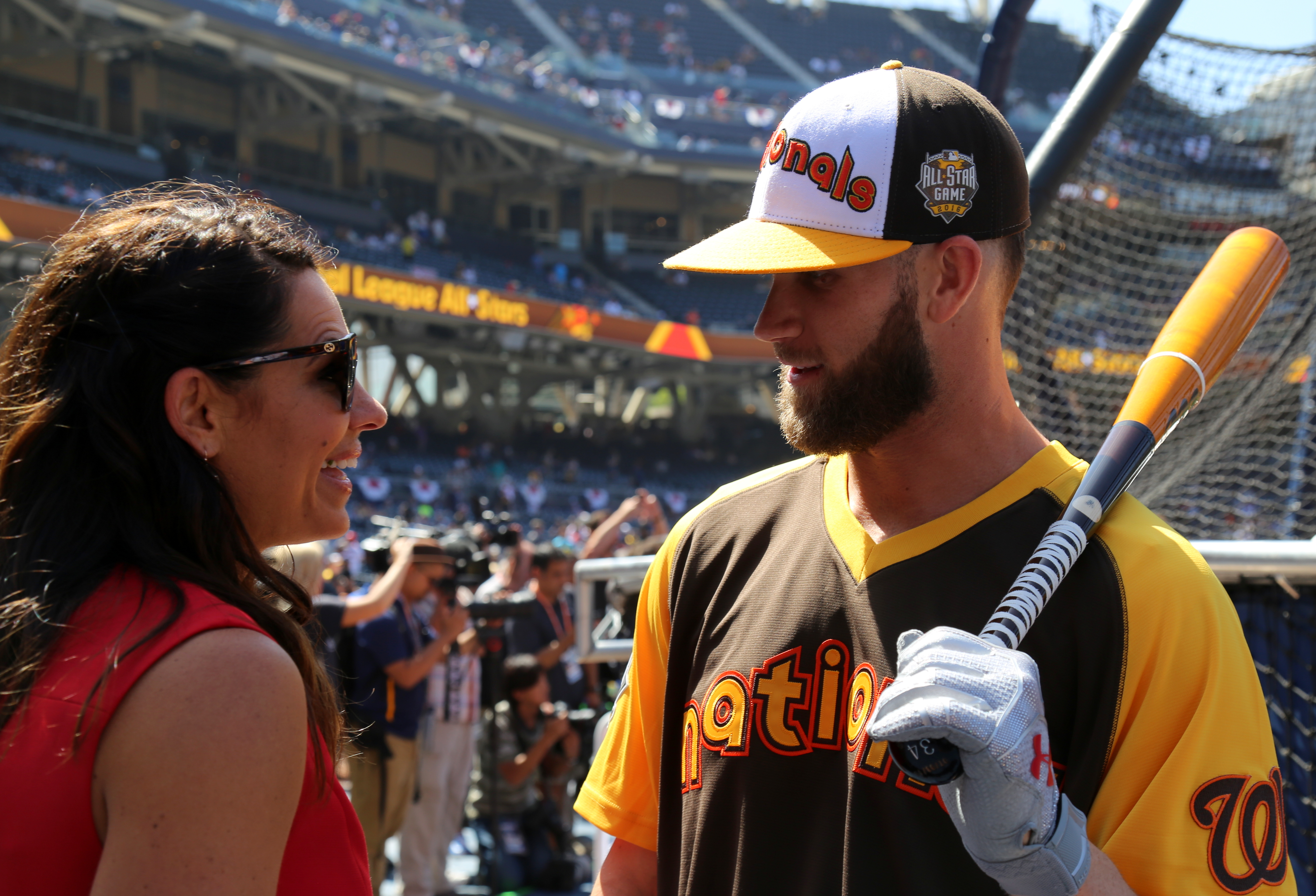 ESPN's Jessica Mendoza chats with Bryce Harper on Gatorade All-Star Workout Day.